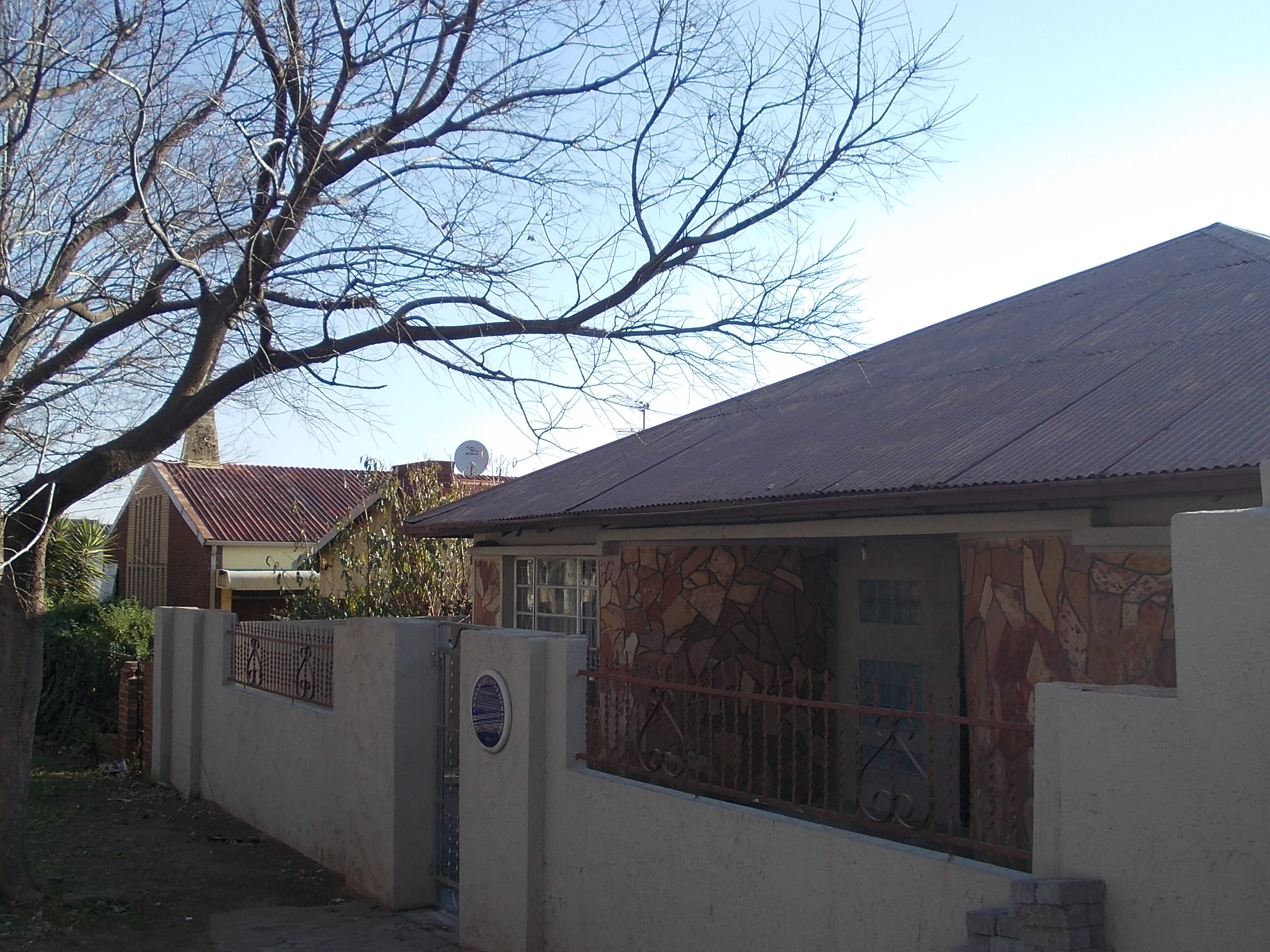 Blue Plaque Inscription: "Womens' leader Rahima Moosa shared this home with her husband and fellow-activist Dr "Ike" H.M. Moosa. The couple played a significant role in organising the 1955 Congress of the People, and in collecting signatures for the Freedom Charter. Together with Lillian Ngoyi, Helen Joseph and Sophia Williams, Rahima Moosa led the epic March of 20 000 women to the Union Buildings in 1956, to protest against the extension of apartheid pass laws." This media shows a South African Protected Site with SAHRA file reference New.